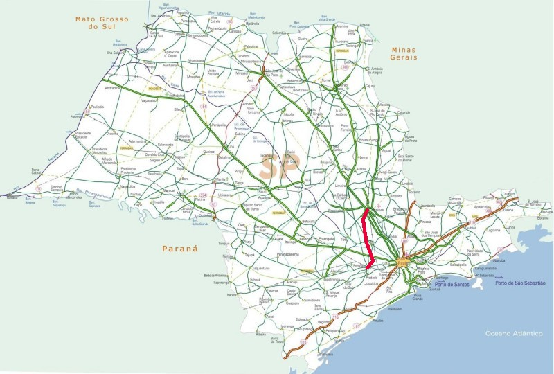 Map of Rodovia Santos Dumont, a highway of the state of São Paulo, Brazil. Drawn on a public domain map by the Ministry of Health. Author: Renato M.E. Sabbatini.